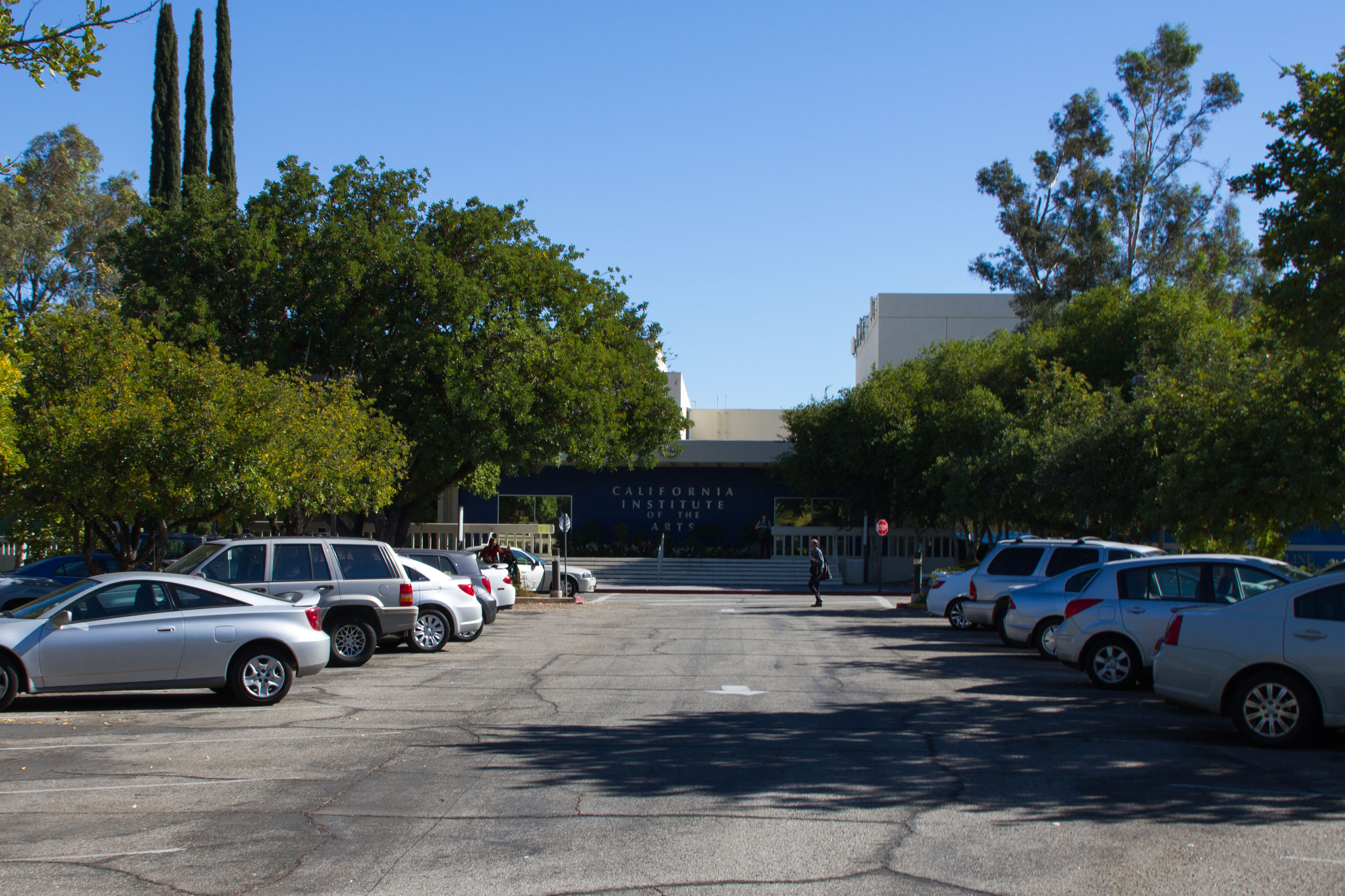 CalArts, Valencia, California, USA.